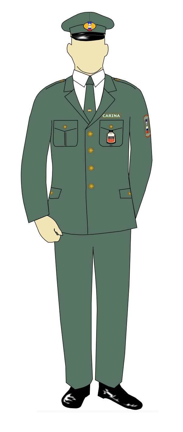 Slovenian Customs Officer in 2000- Man uniform. Based on legal prescriptions in official journals: Uradni list RS št 111 (01.12.2000): »Uredba o barvi in oznakah službene obleke v carinski službi.« Str. 11440-11443. Uradni list RS št. 107 (23.11.2000). »Pravilnik o službeni obleki delavcev carinske službe.« Str. 11217-11220.